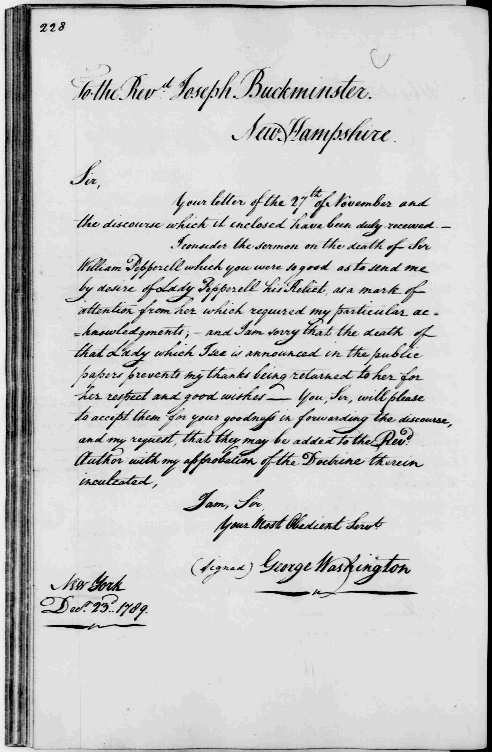 Photograph of letter from George Washington to Rev. Joseph Buckminister of New Hampshire, praising Buckminster's funeral sermon for Sir William Pepperrell.[1] The George Washington Papers, Series 2 Letterbooks, Library of Congress, Washington, D.C.